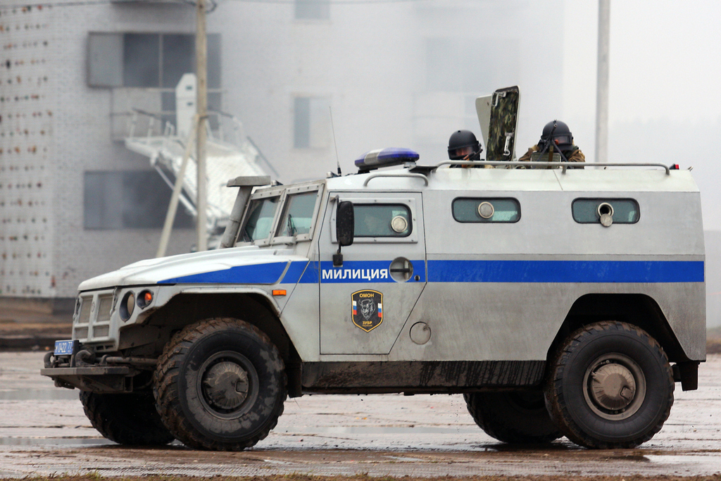 OMON Zubr GAZ-233036 SPM-2 vehicle during Interpolitex-2009 exhibition